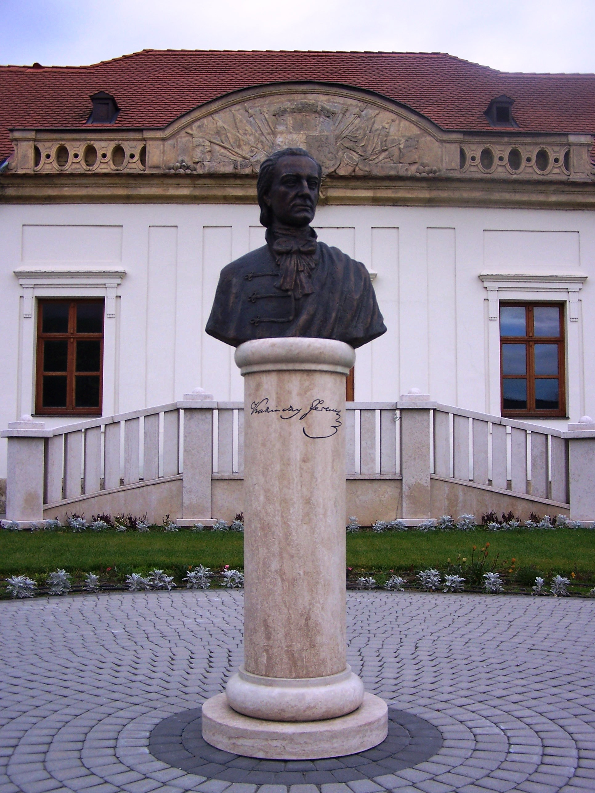 Statue of Kazinczy Ferenc in front of Beleznay Mansion, Bugyi